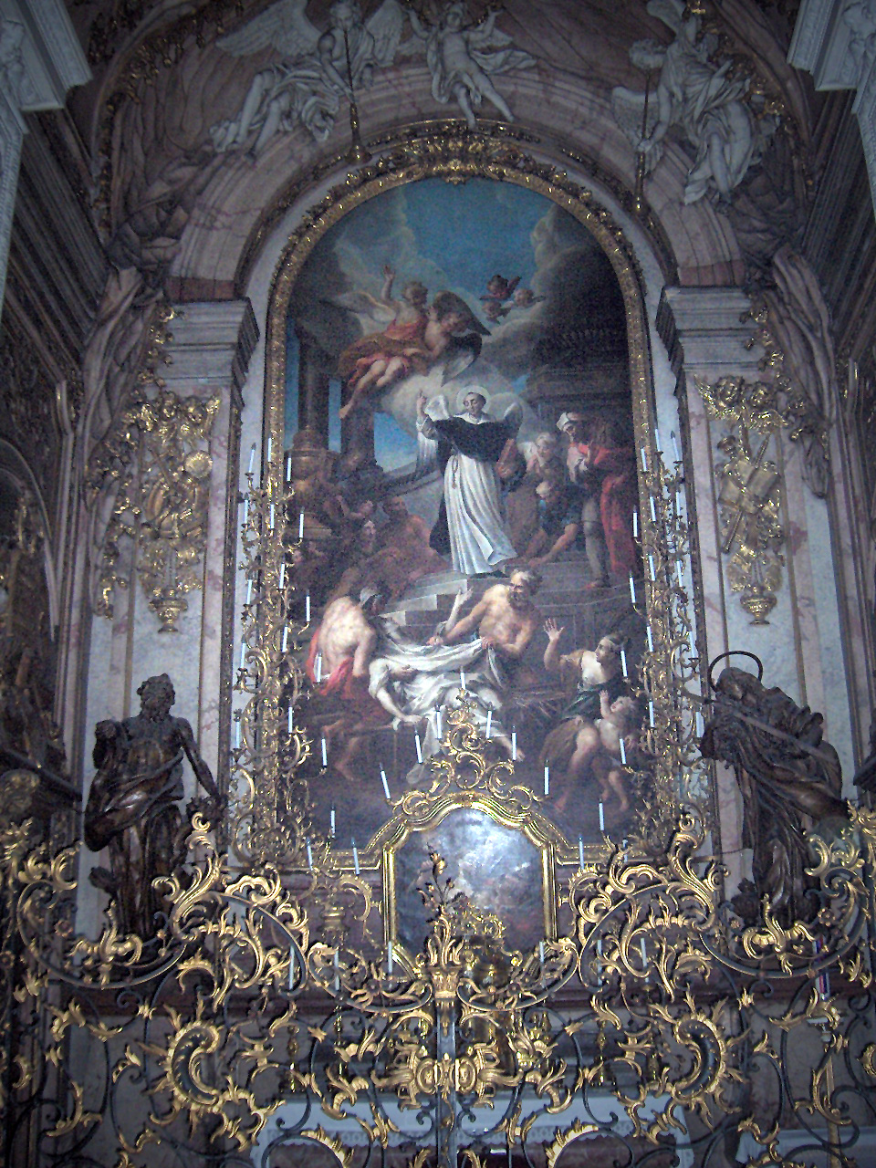 Vincent Ferrer chapel; painting by François Roettiers (1726); in the Dominikanerkirche, Vienna, Austria